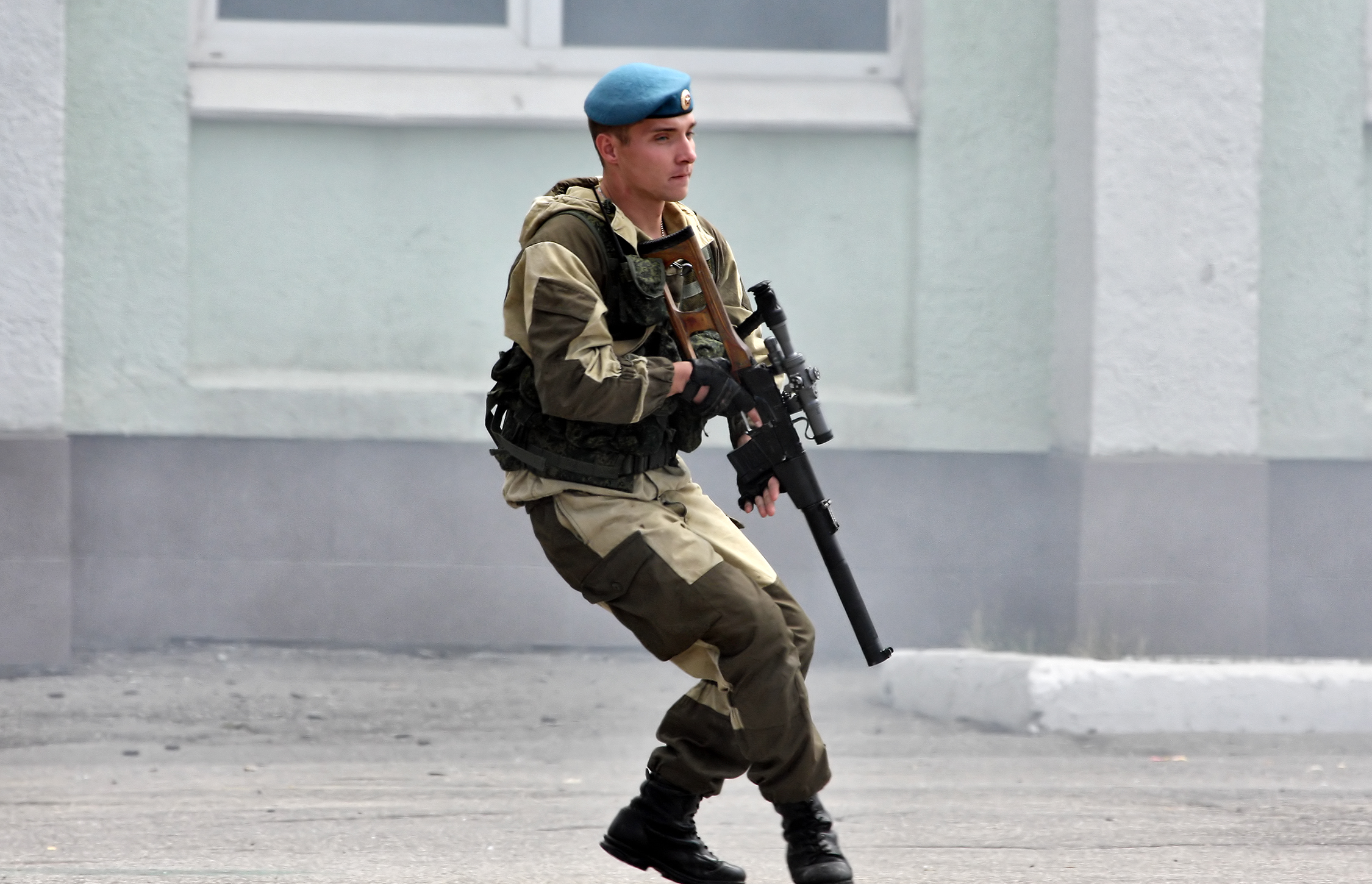 Combat skills demonstration, also known as Pokazukha